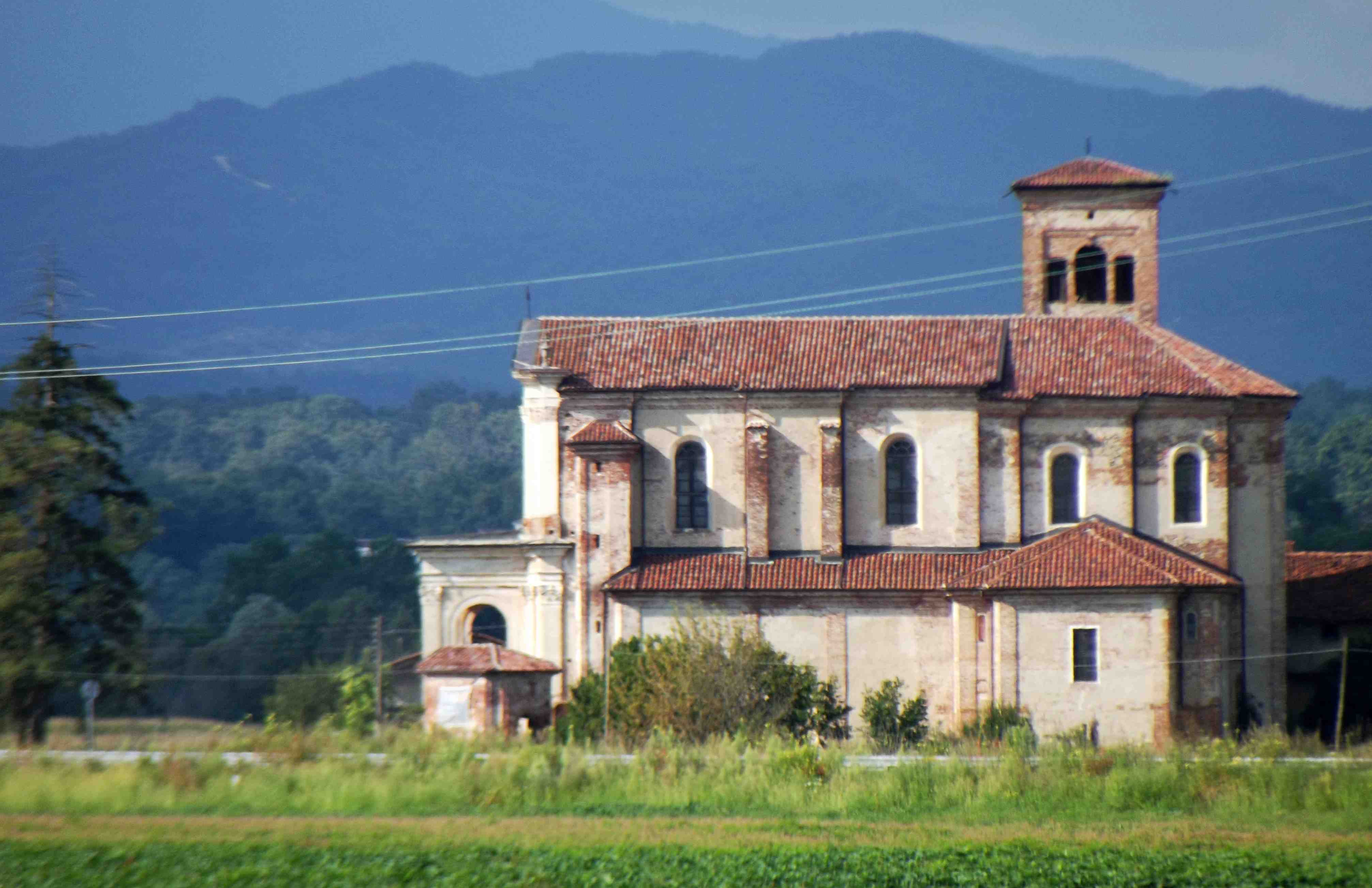 Mottalciata (BI, Italy); San Vincenzo church